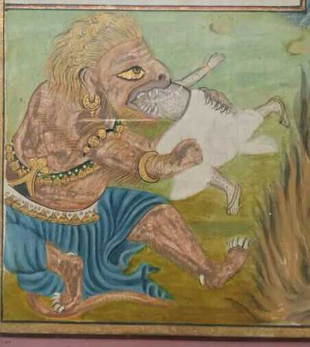 Udhyoga parwa Miniature from Razmnama